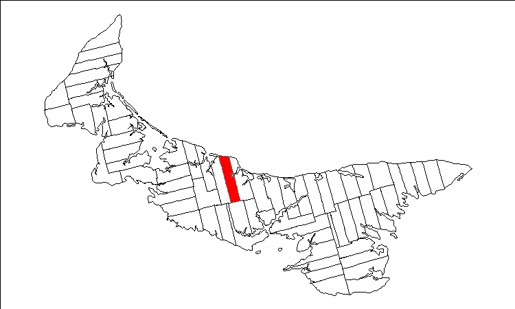 Public domain map of Prince Edward Island created by User:Plasma east with data courtesy of Geogratis, modified to show townships. Released under GFDL (self).